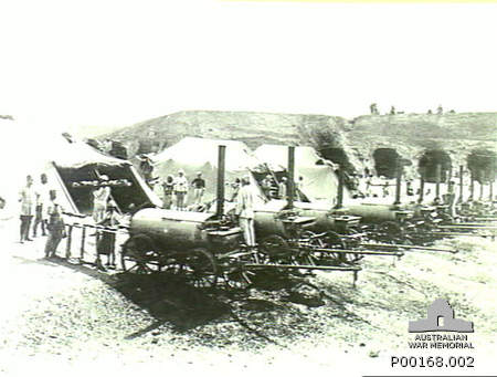 Ottoman bakery capturedd at Sheria, Palestine.